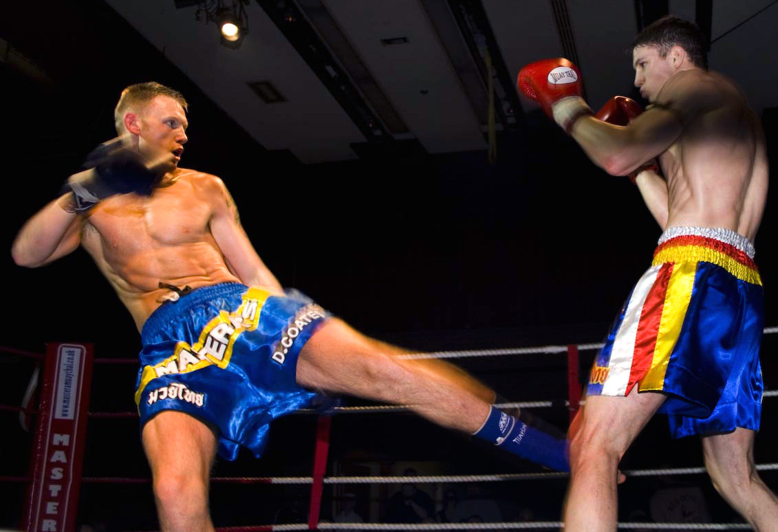 Muay Thai: low kick to the inside front leg. Picture taken at the 2006 "March Fight Night" of Master A’s Muay Thai school, Middleton Civic Centre, Manchester, UK. The fight is Damien Coates (Master A's, left) vs. Matthew David (Master Lex's, right) for "I.T.B.F North West Area Champion".[1]